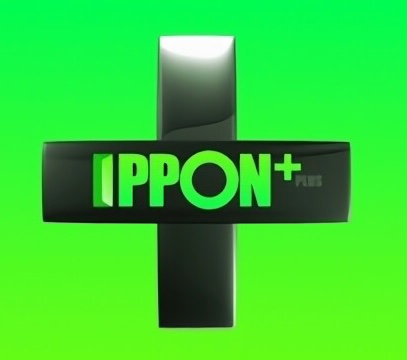 The photo has been taken in March 2018